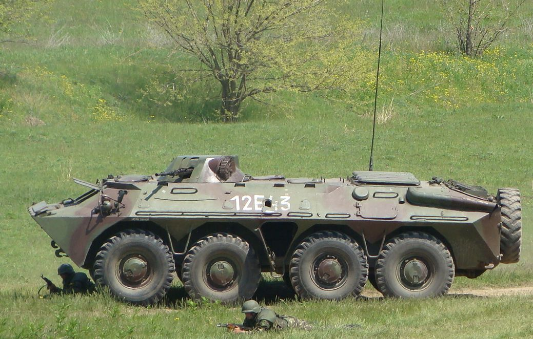 A TAB-77 APC during a military exercise